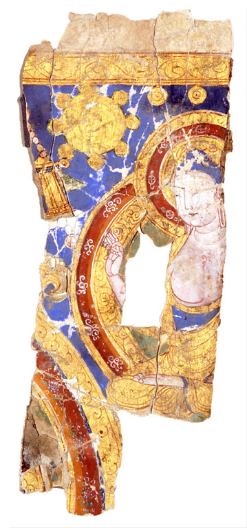 The Primary Prophets on a Manichaean Pictorial Roll Fragment from Chotscho. Scroll Fragment with an image of the Buddha (MIK III 4947 & III 5d), ca. 10th century, Museum of Indian Art, Berlin.